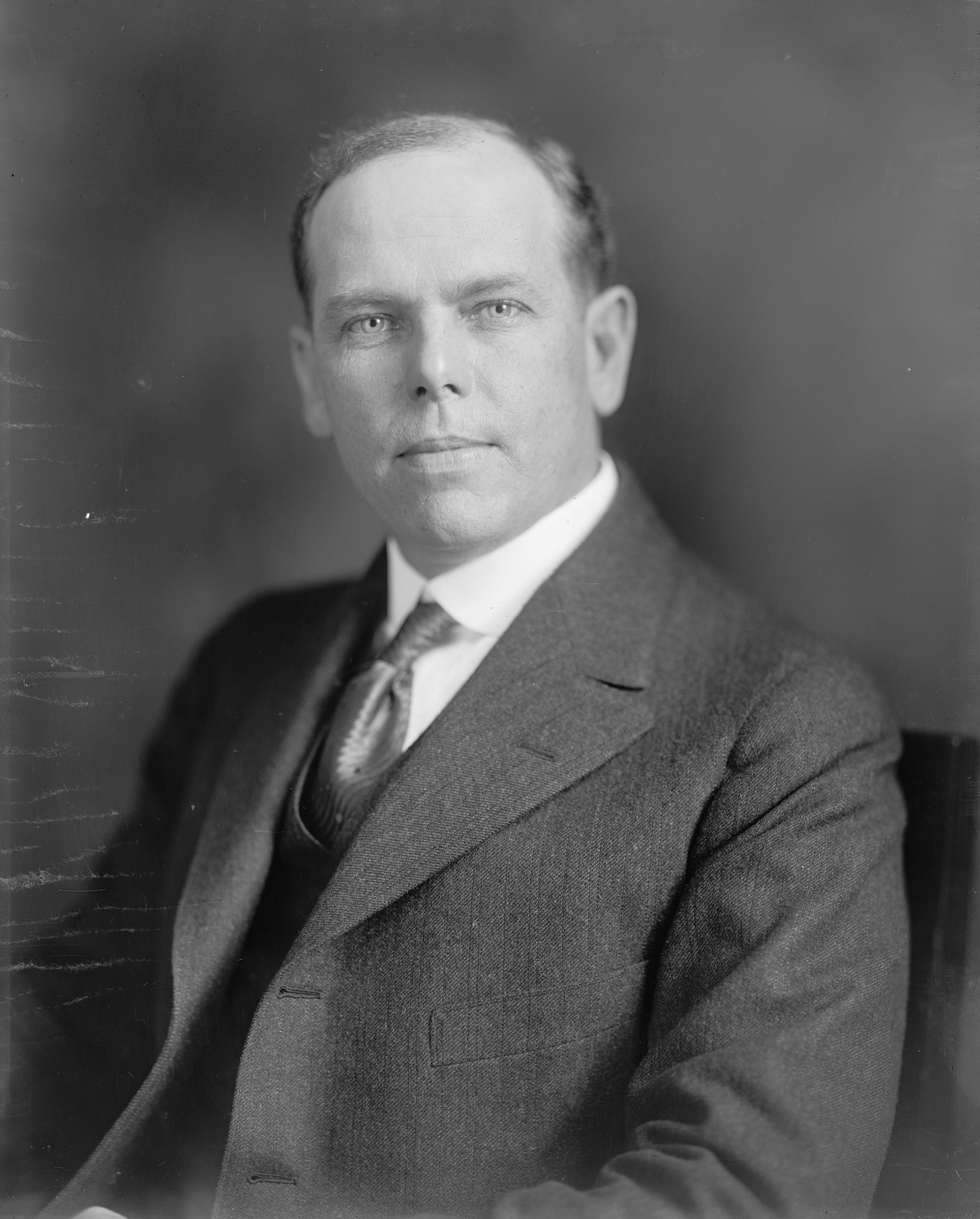 Title: GAY, SEN. E.J. Abstract/medium: 1 negative : glass ; 8 x 10 in. or smaller